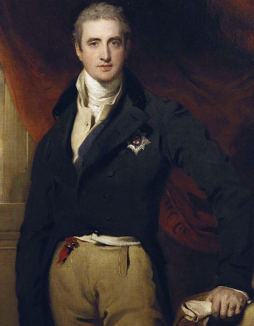 Portrait of Robert Stewart, Viscount Castlereagh, later 2nd Marquess of Londonderry